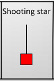 תבנית איש תלוי ירידה